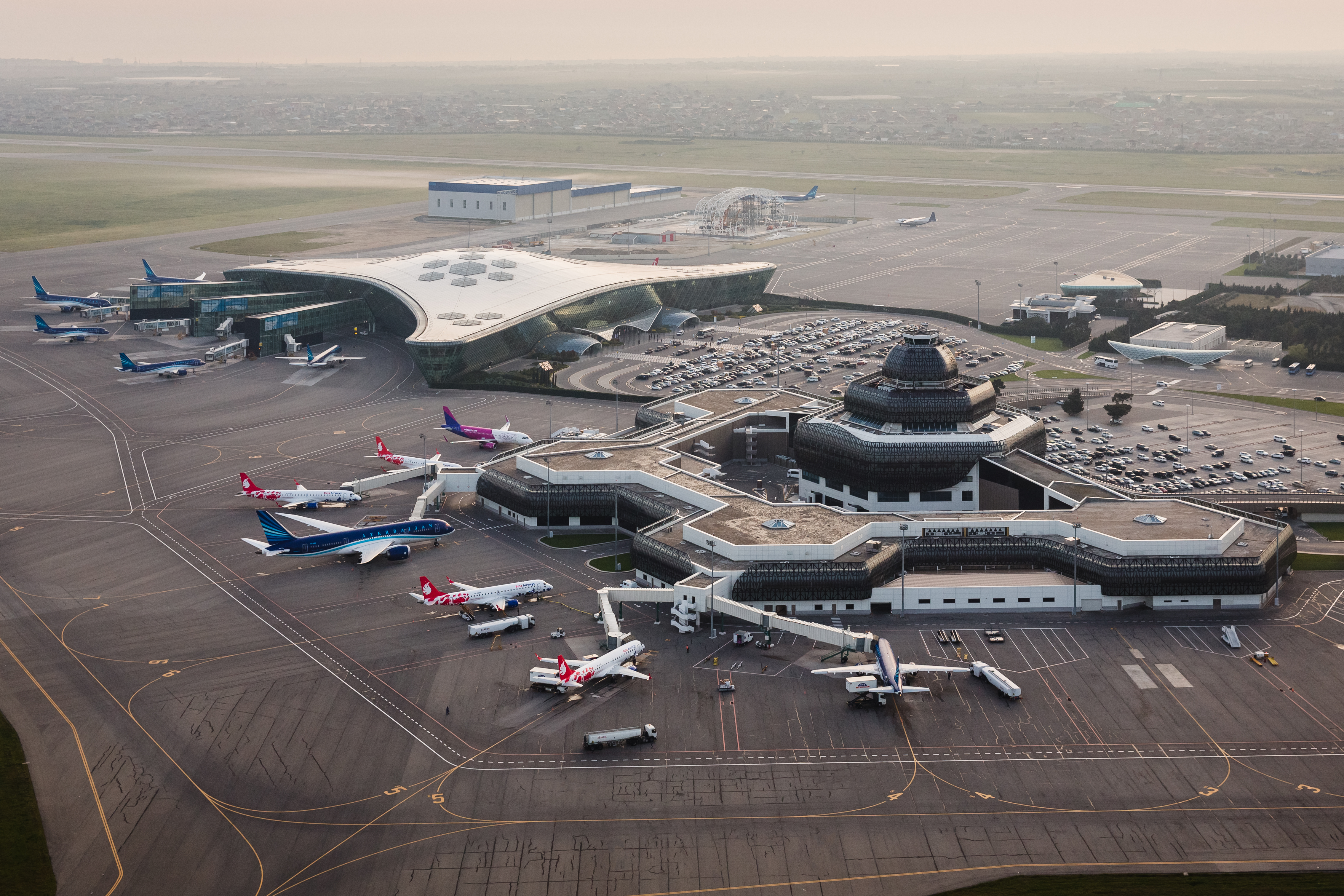 Aerial view of Heydar Aliyev International Airport (Baku, Azerbaijan)